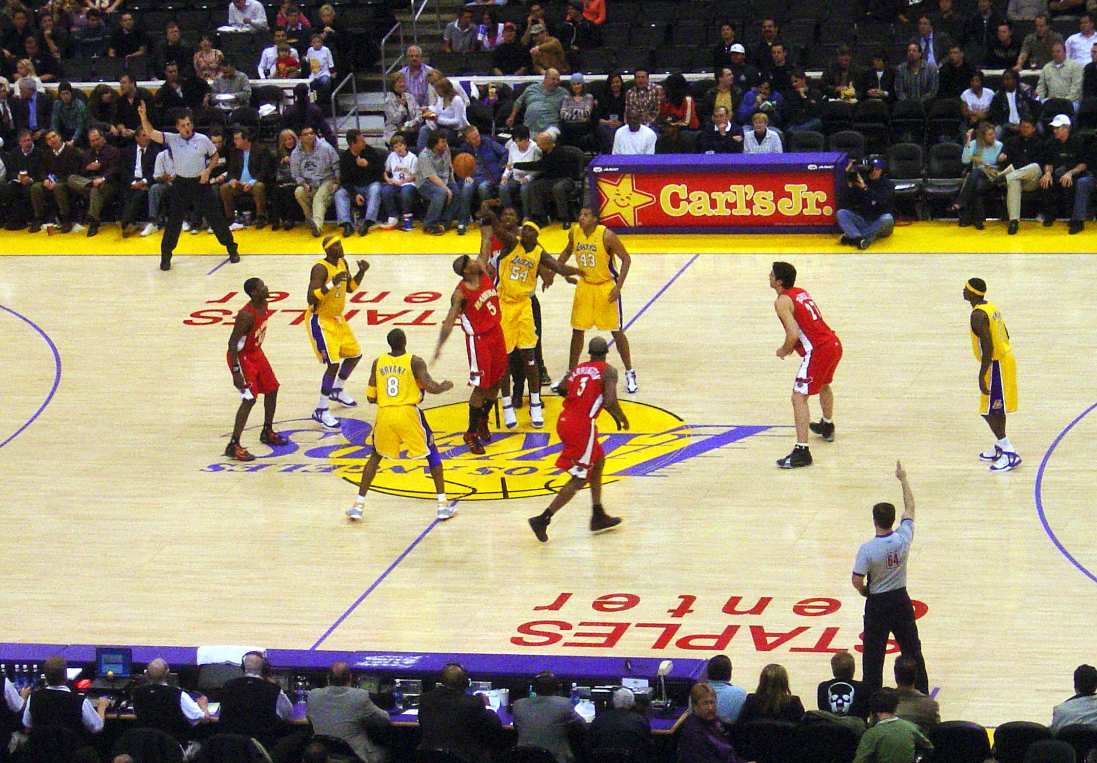 Opening tip, Los Angeles Lakers vs. Atlanta Hawks, NBA game at Staples Center